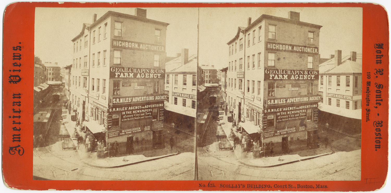 Accession No.: 06_11_000085 Title: Scollay's Building, Court St. Series: American Views Creator: Soule, John P. Local Subject: Commercial Buildings Subject: Boston (Mass.) Publisher: John P. Soule Format: Stereographs BPL Department: Print |Source= Scollay's Building, Court St. |Date=2007-10-29 14:57 |Author=BPL